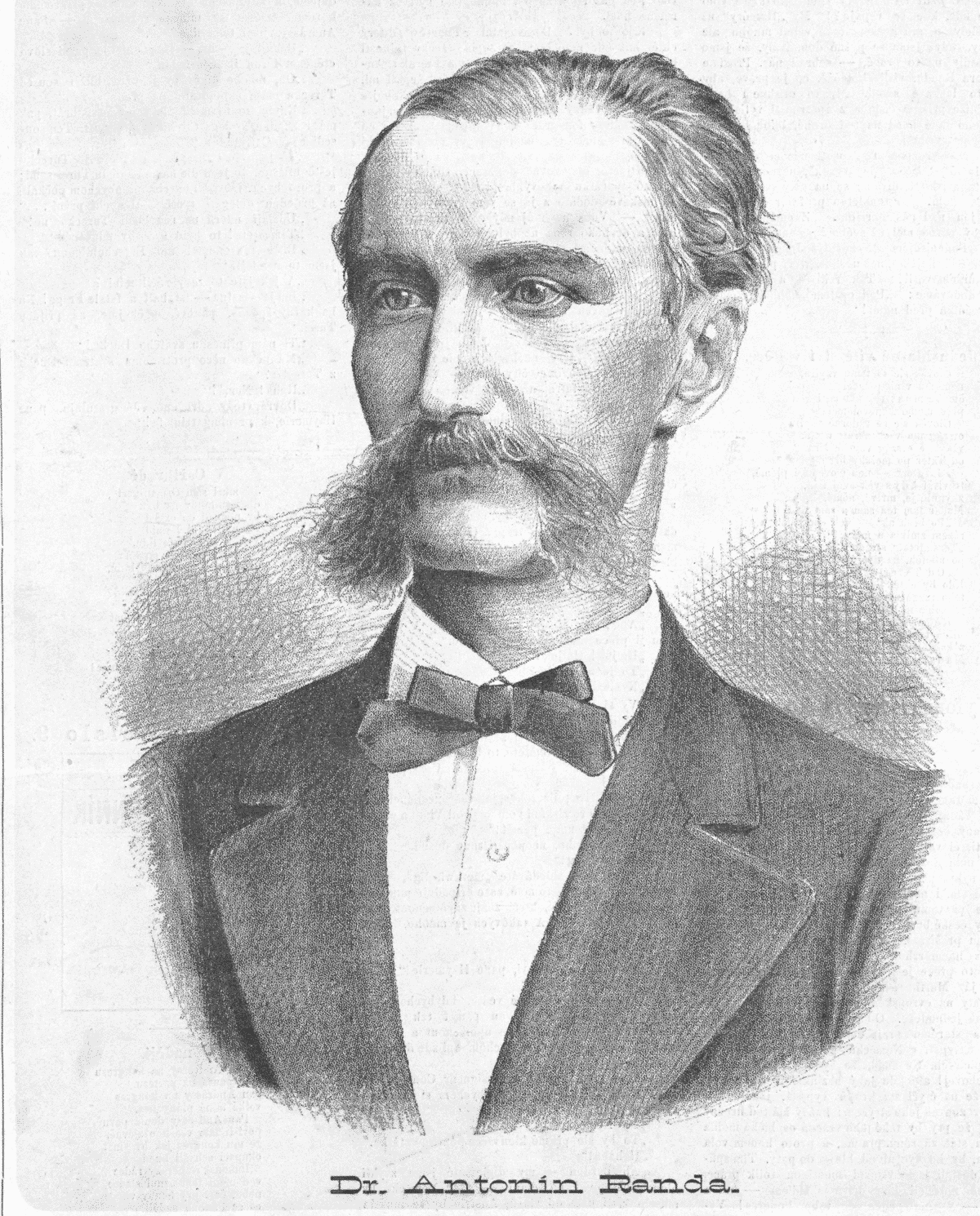 Portrait of Antonín Randa (1834 - 1914), Czech professor of law.